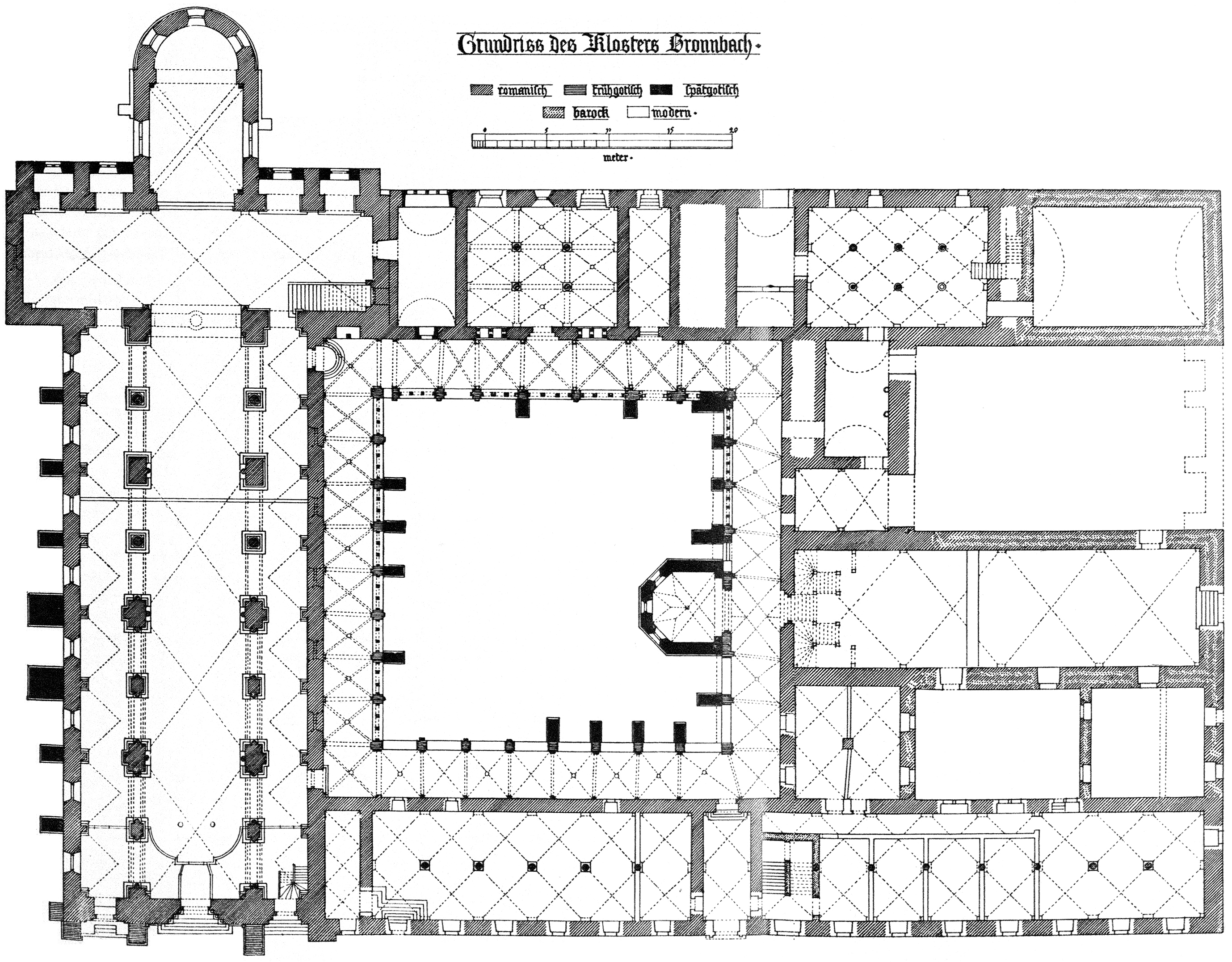 Ground plan of the main building of Bronnbach monastery, 1896 situation